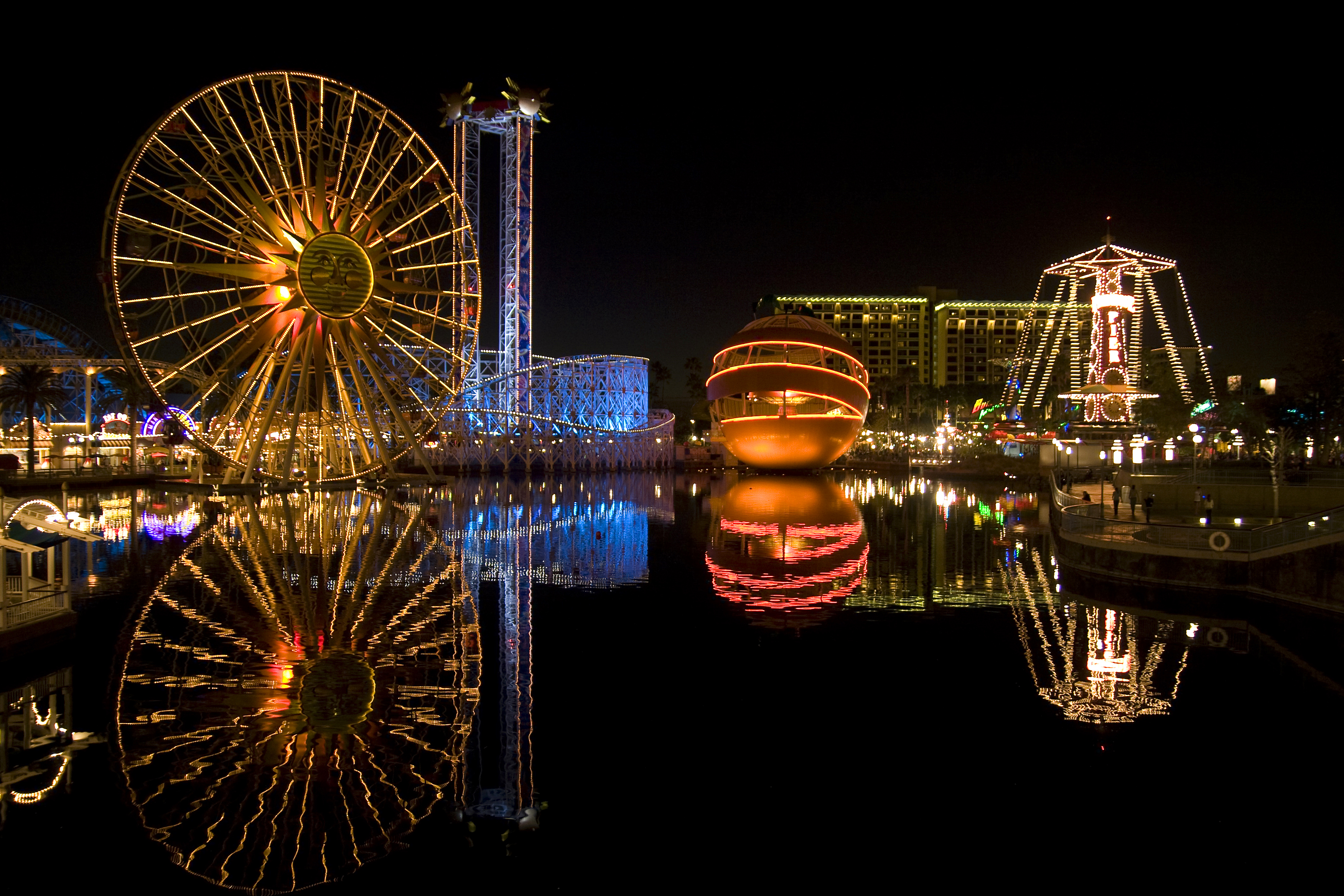 Disney's California Adventure park reflected in the lake.